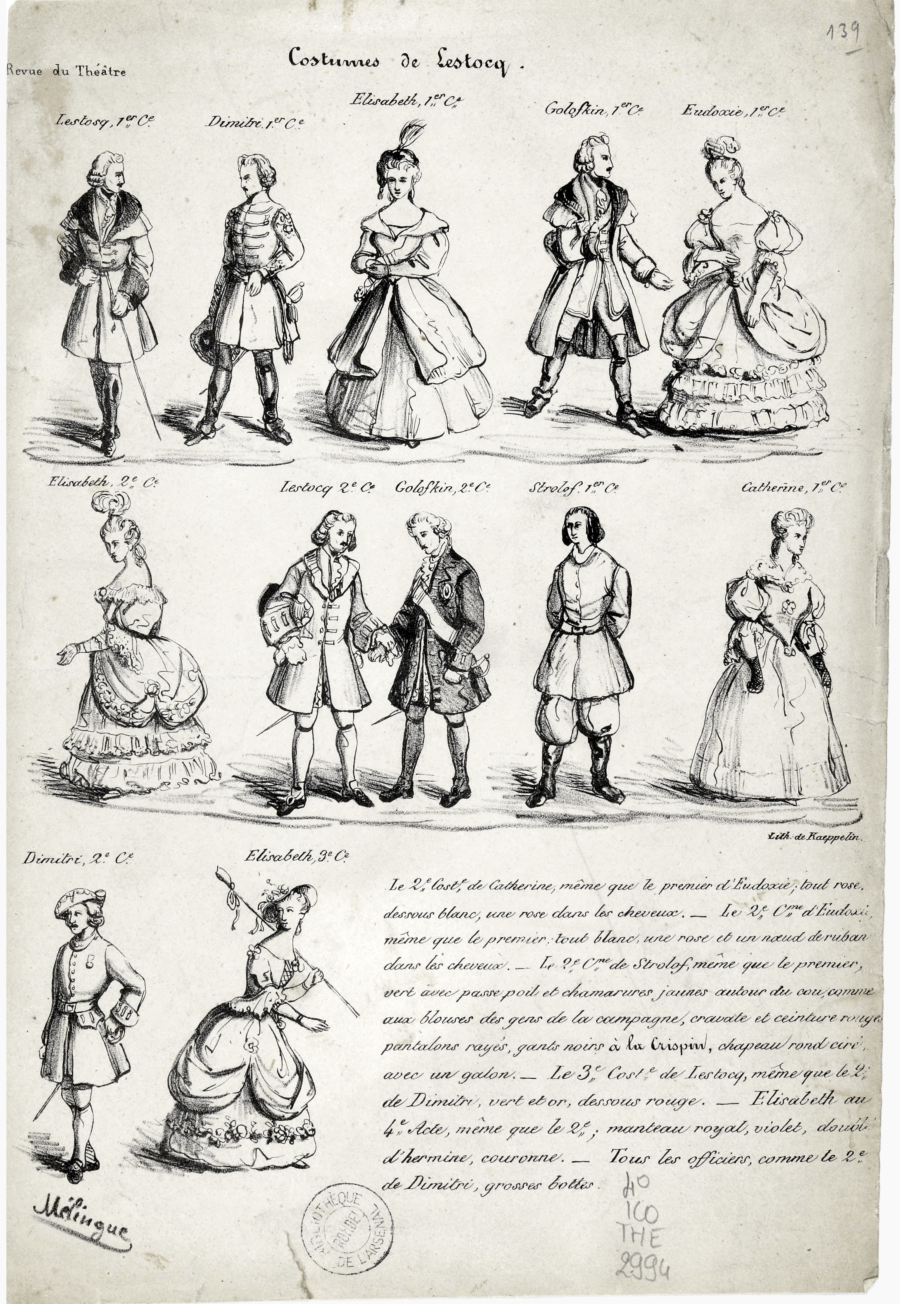 Plate of costumes draught by Étienne Mélingue (1807–1875) for Daniel Auber's Lestocq ou L'intrigue et l'amour.